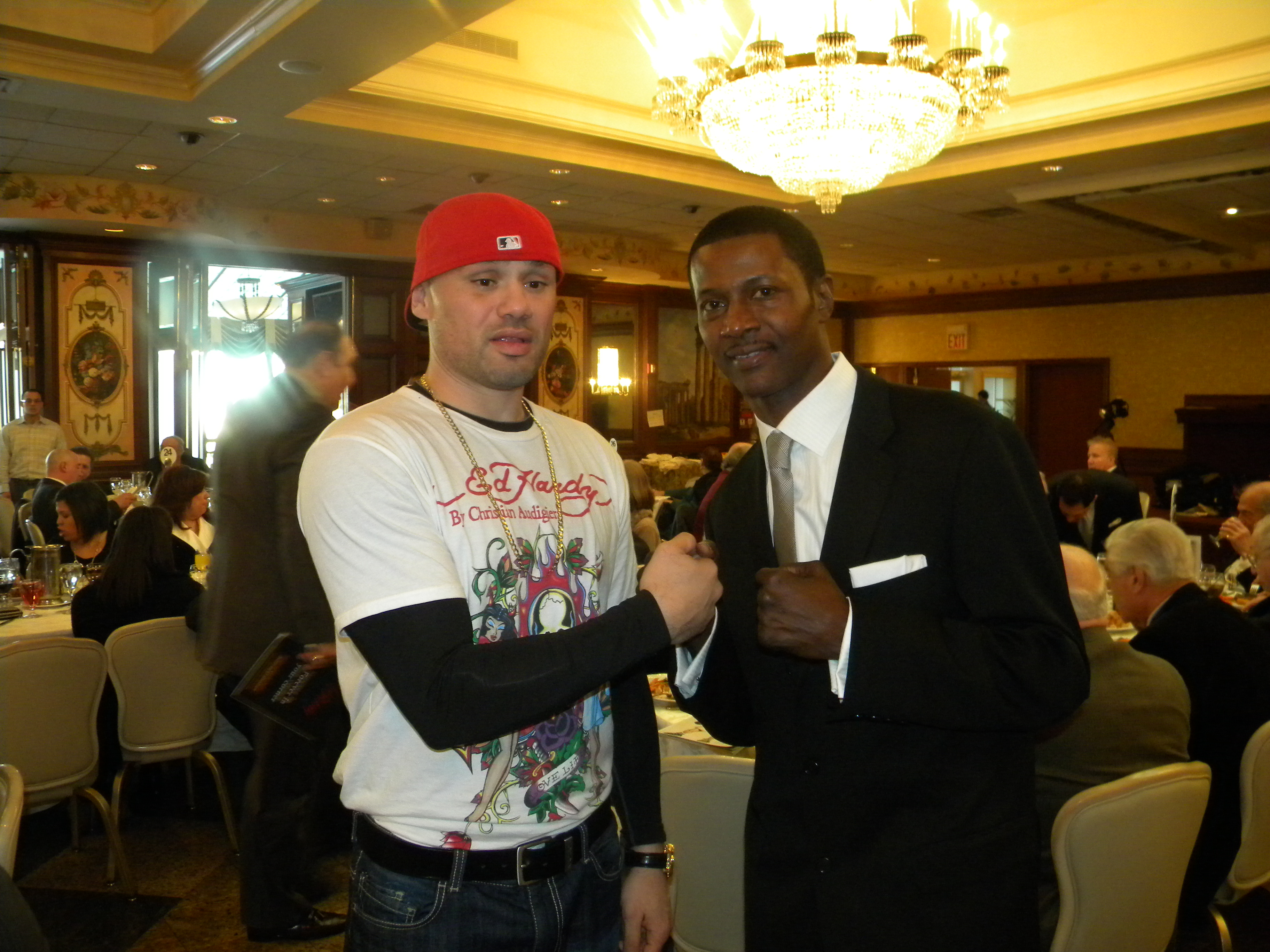 Internet sports writer and photographer Robert Brizel captured cruiserweight contender Julio Cesar Matthews and former World Welterweight champion Mark Breland, the trainer of World Heavyweight champion Deontay Wilder, at the Ring 8 benefit dinner for injured and retired boxers in Howard Beach, New York, January 19, 2010.